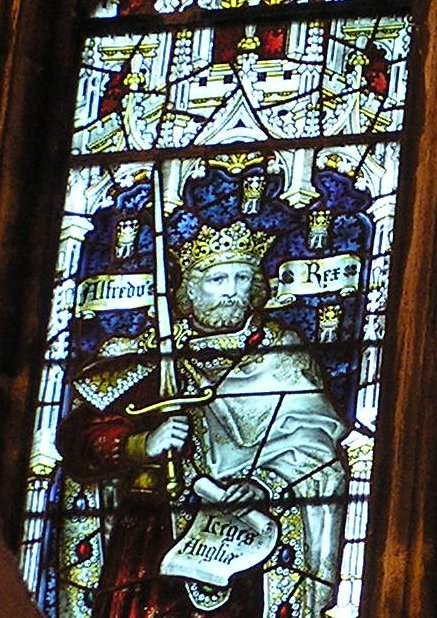 King Alfred the Great of England pictured in a stained glass window in the West Window of the South Transept of Bristol Cathedral.